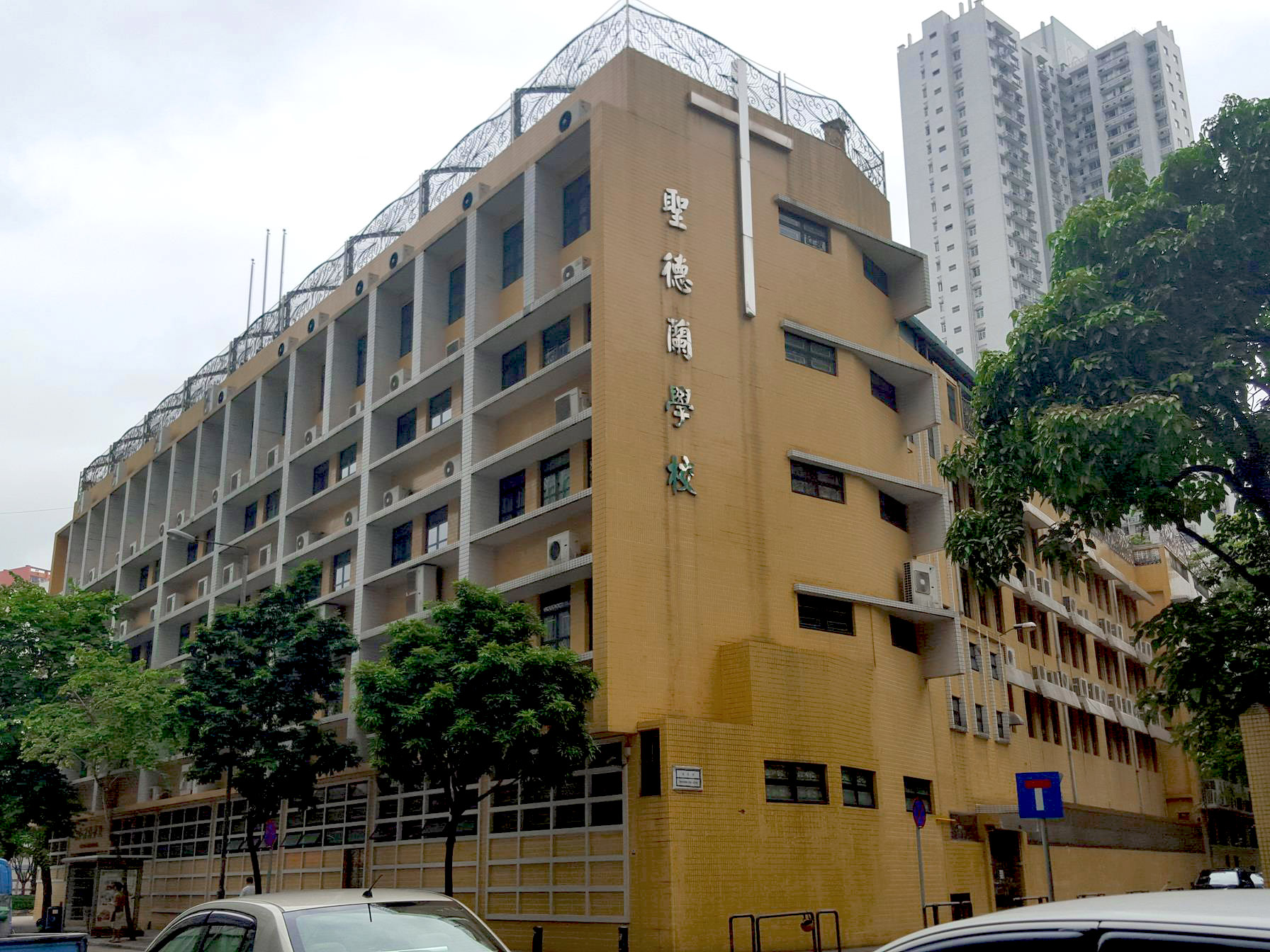 聖德蘭學校